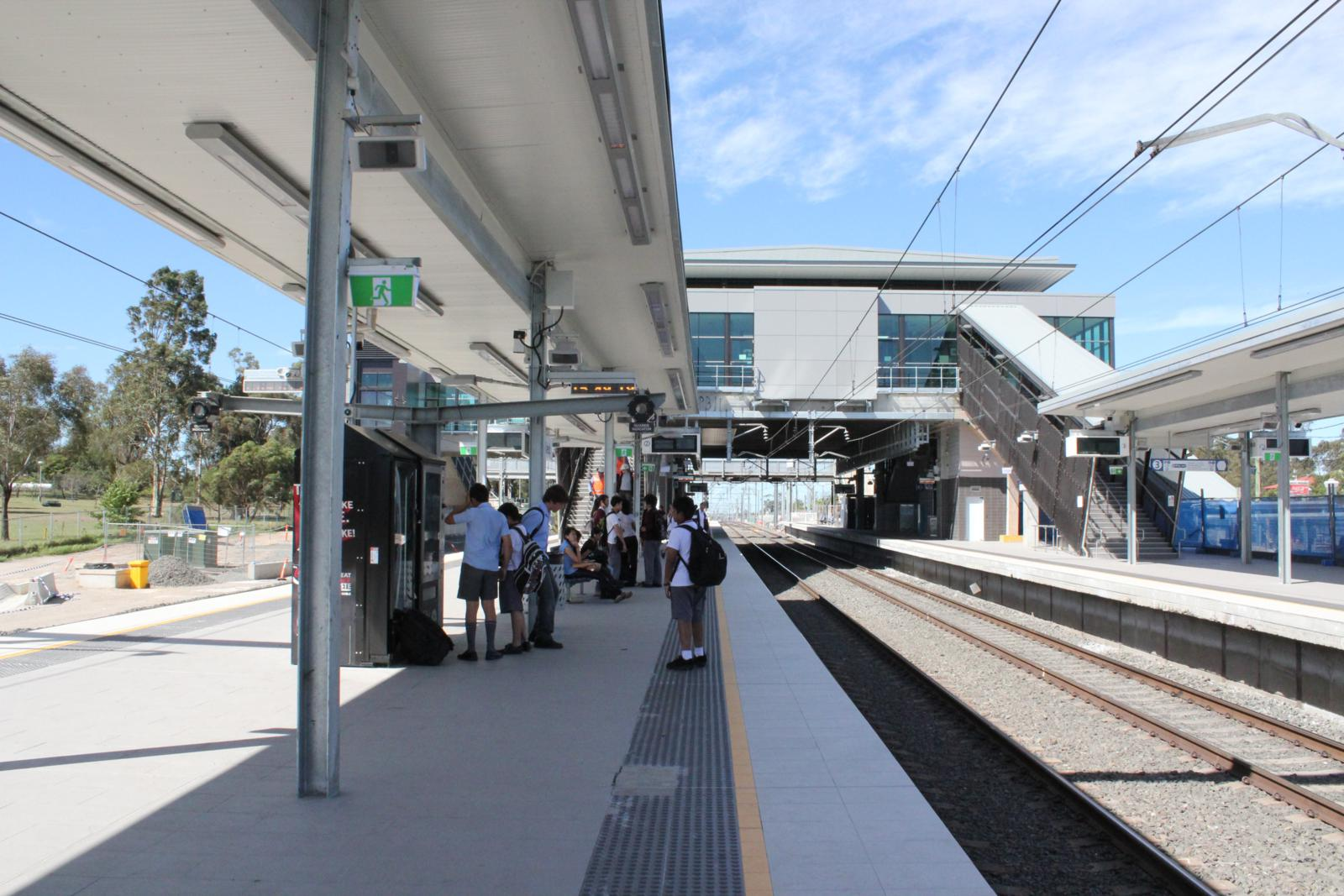 With concourse building complete